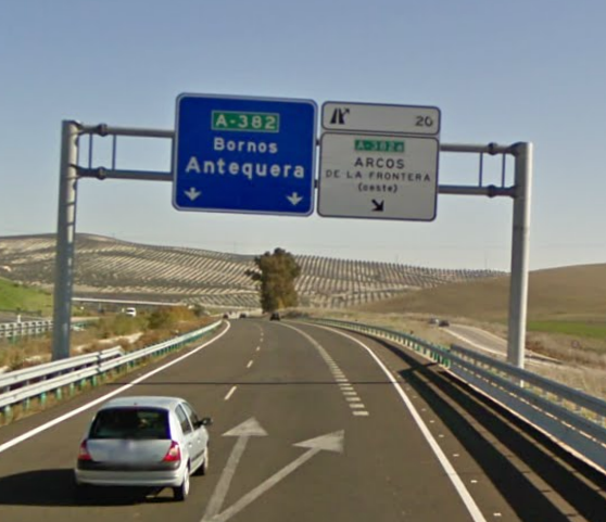 A photo of the spanish road A382